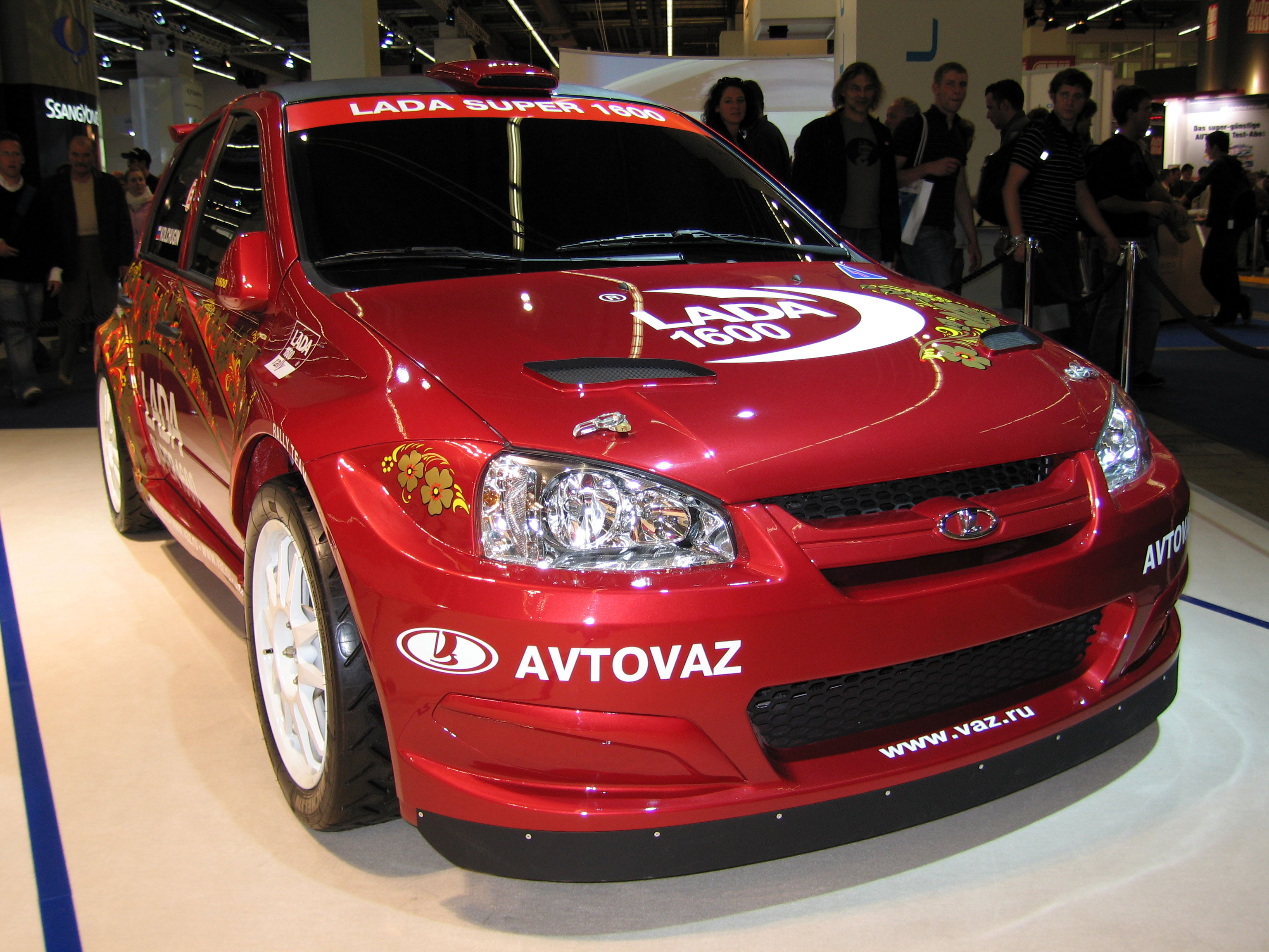 Lada 1119 Super 1600 at the IAA 2007 2007-Sept.-19 Please quote me as LSDSL Bitte nennen Sie mich als LSDSL